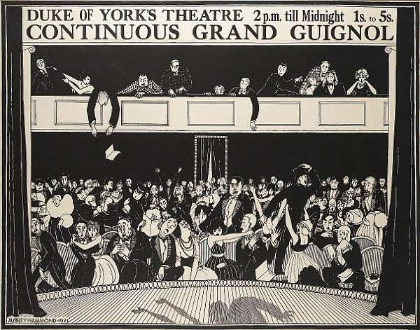 Drawing by Aubrey Hammond to advertise the Grand Guignol Productions at The Duke of York's Theatre, 1921.